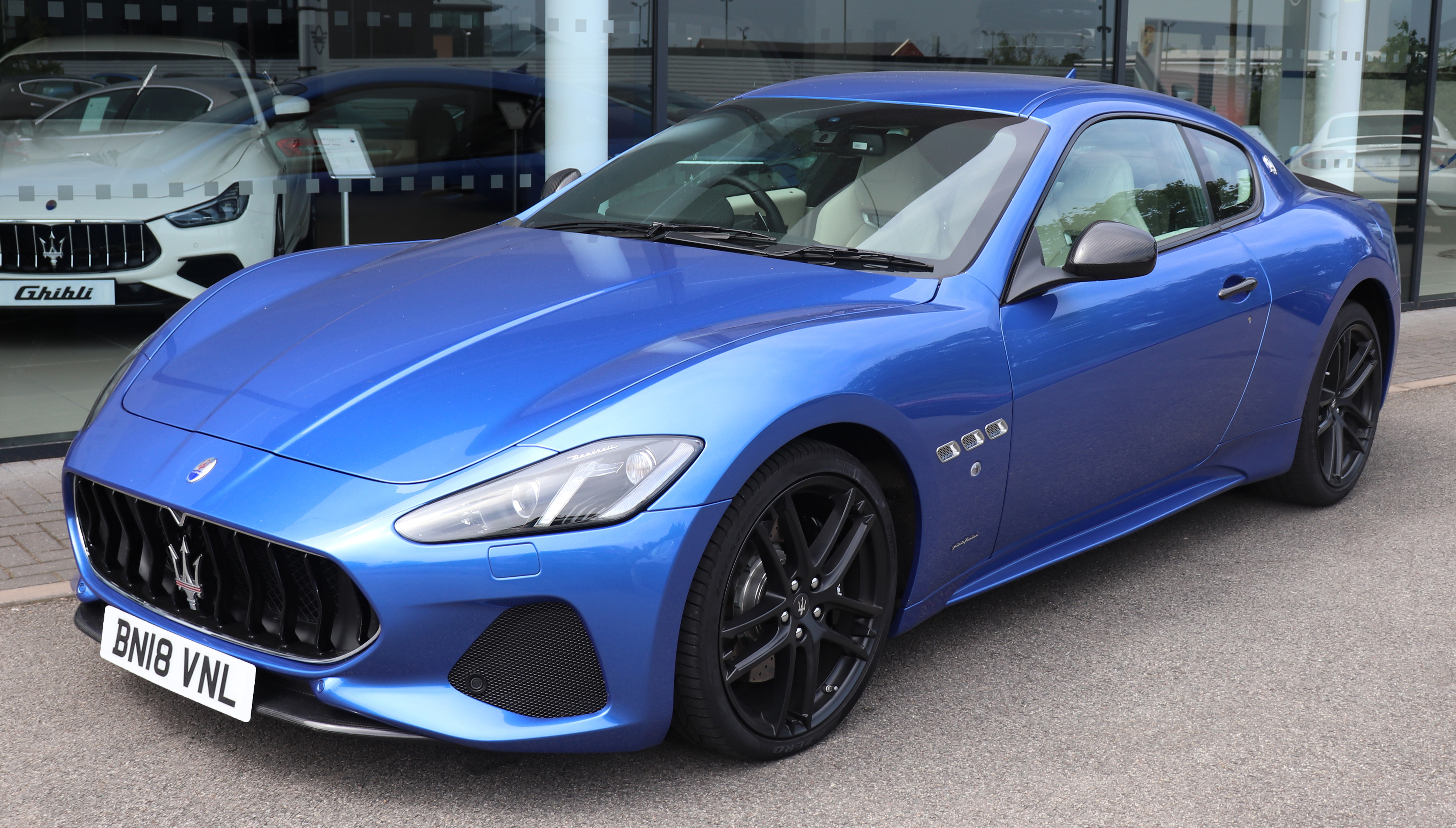 2018 Maserati GranTurismo Sport Automatic 4.7 Front Taken in Solihull